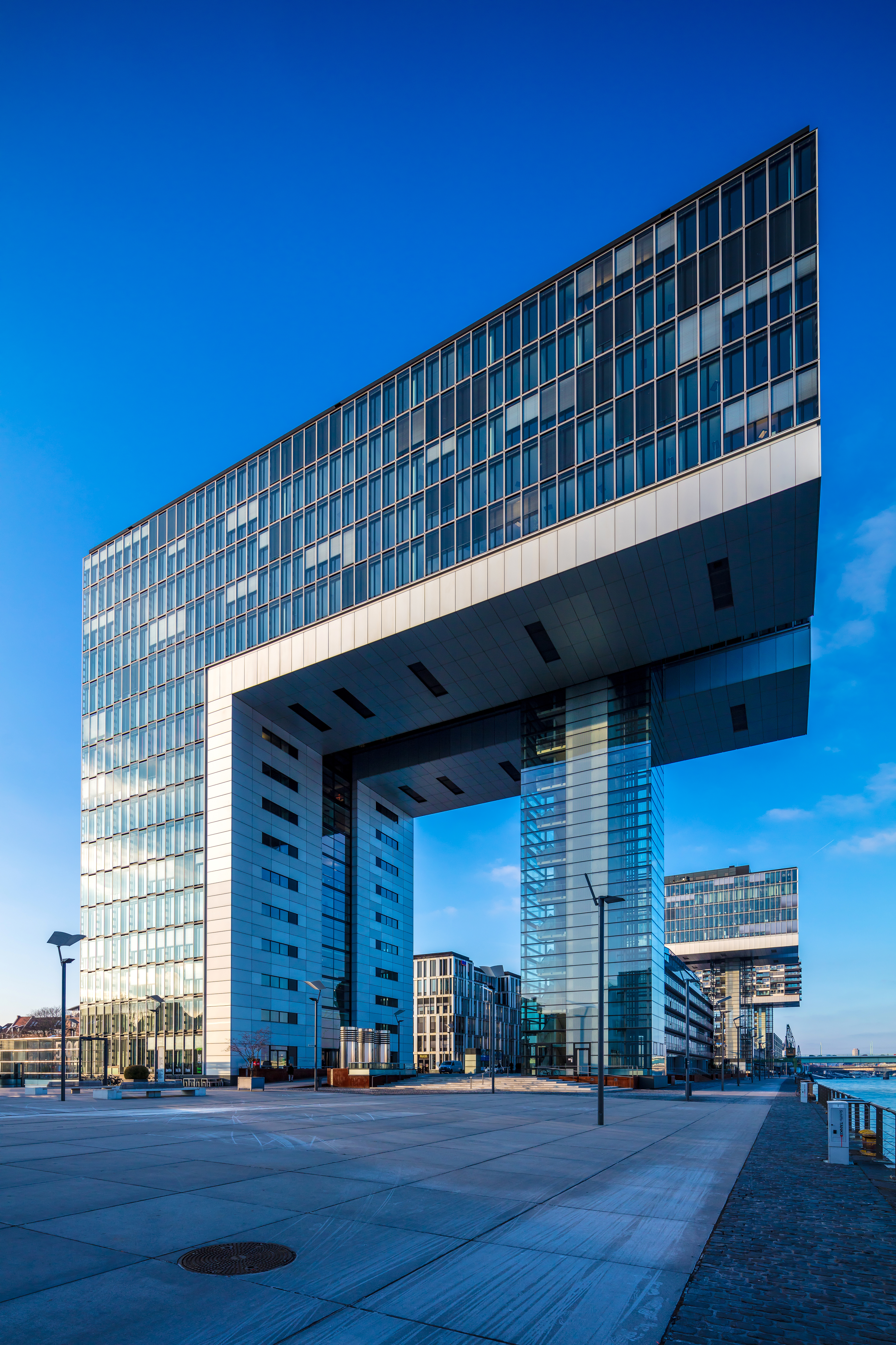 Crane house complex (Kranhäuser) in the Rheinauhafen district of Cologne - Architects: BTR (Bothe, Richter, Teherani), Cologne (01/2017 - 10°C... real feel: -15°C ... far too cold for my poor fingers ... : - ( ...) - Human picture: (1 body / 1 lens / 1 human = 1 picture ) 0% AI ... ;- ) ... Following vandalization (Rotterdam) of my work, final stop of this series on European cities. My work not being respected, I definitively stop my publications in Wikimedia Commons (including definition and quality updates). Final publication in Wikimedia Commons